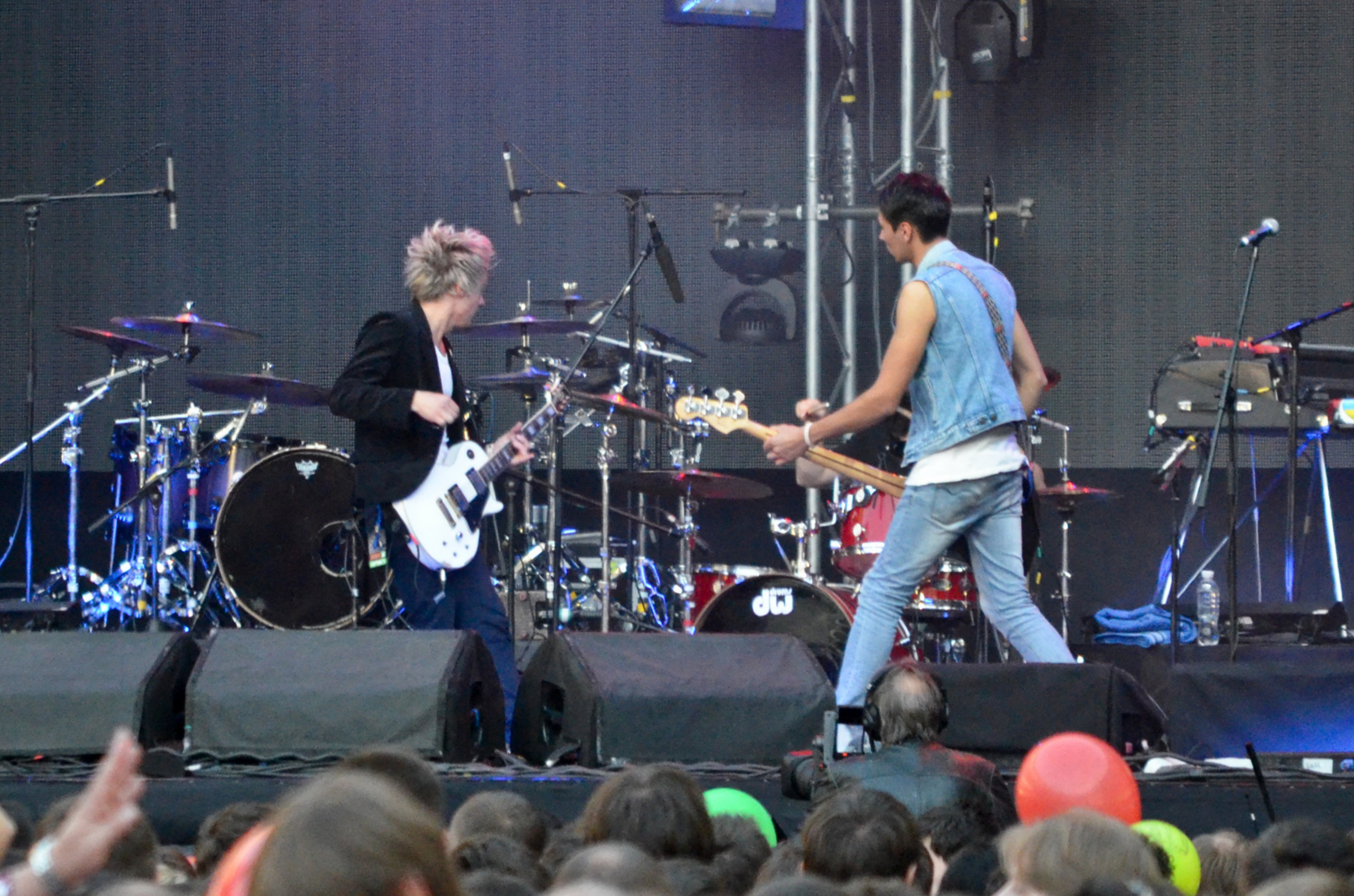 Fontaliza opening for Okean Elzy at NSC Olimpiyskiy